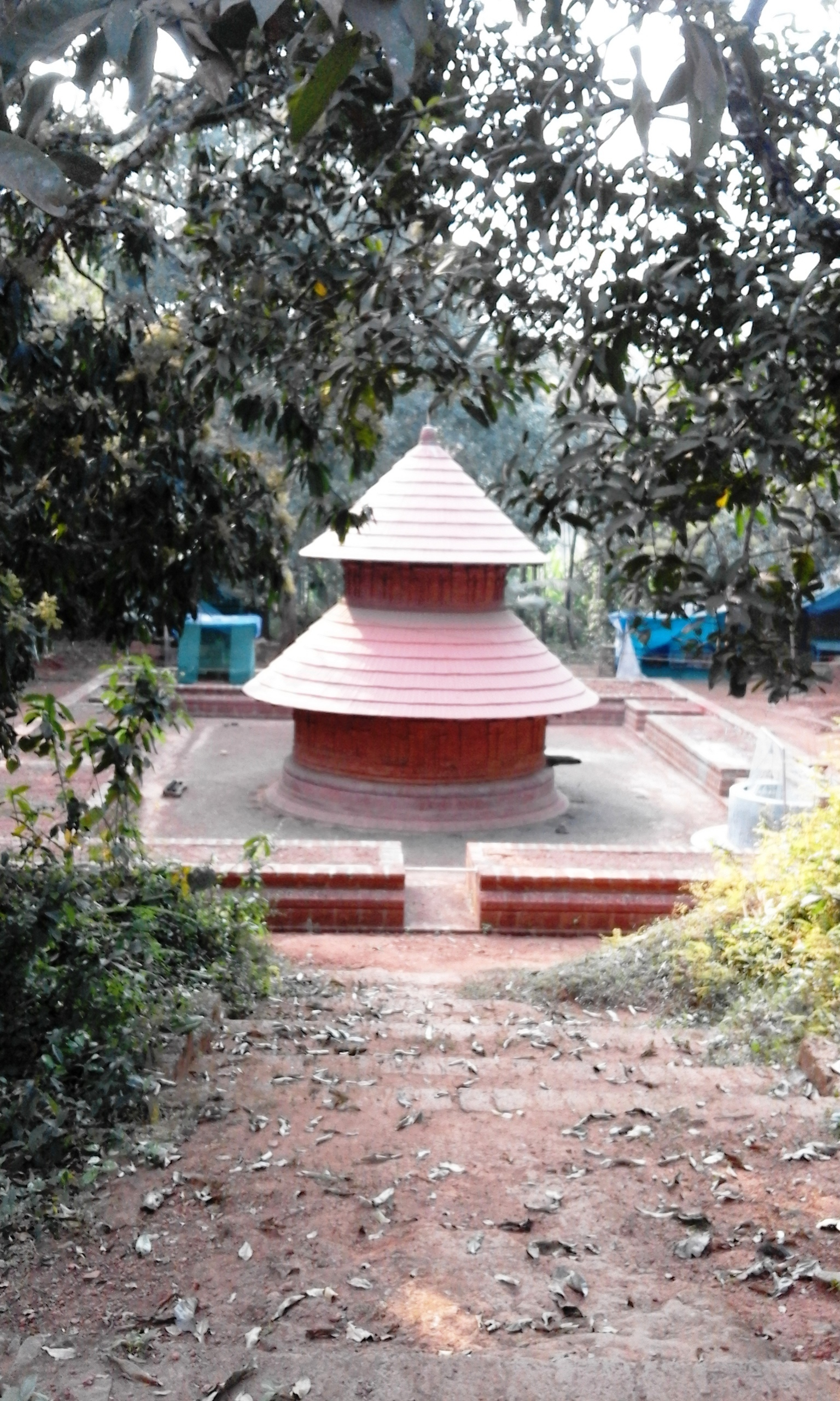 Kannamvettikkavu, Kondotty, Malappuram District, Kerala, India.